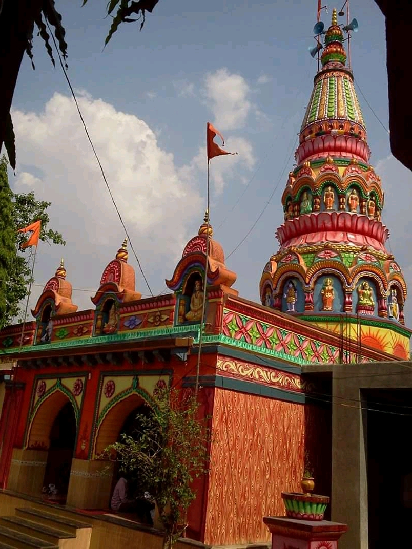 Photo